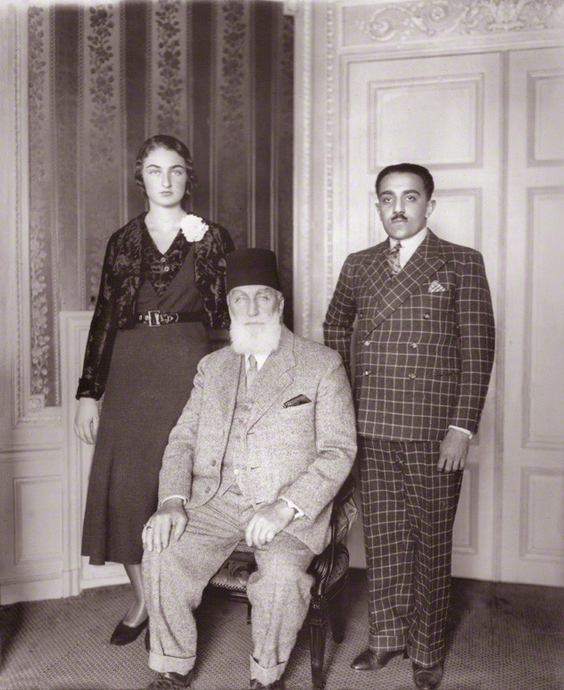 Princess Durrushehvar, Princess of Berar; former Caliph Abdulmejid II (şehzade of the Ottoman Empire) and Nawab Azam Jah, Prince of Berar.